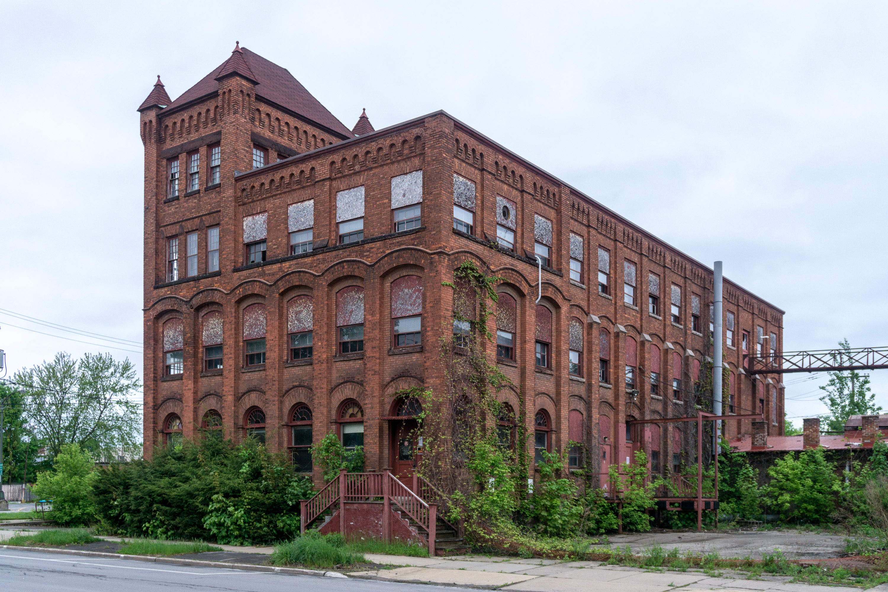 HM Quackenbush, Inc. is a manufacturer of commercial metal finishing and electroplating, nutcrackers, nutbowls ... 220 Prospect Street Herkimer